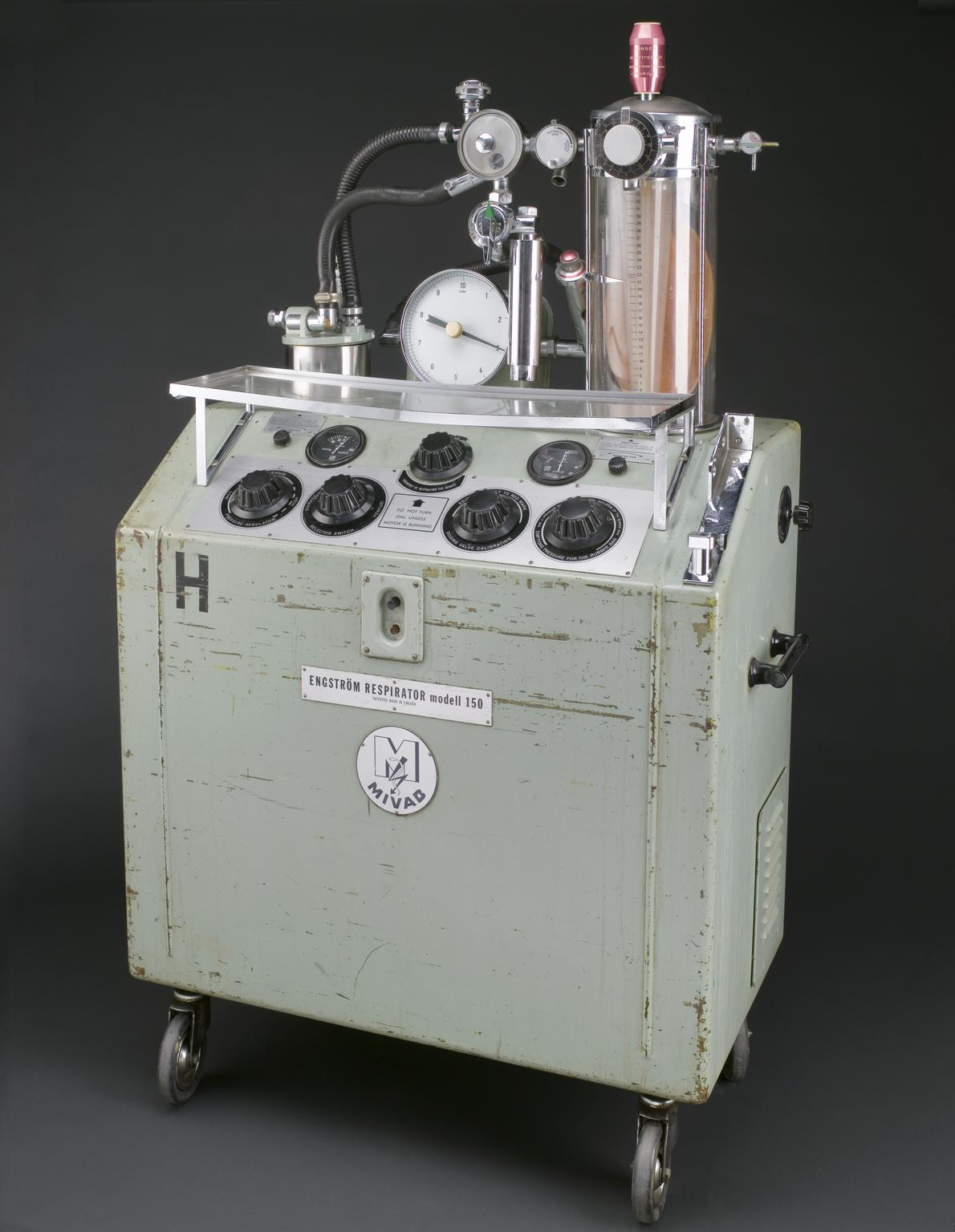 The machine was invented by Carl-Gunnar Engström (1912-1987), a Swedish physician and engineer. Used in operating theatres or on wards, this artificial respirator delivers air straight into the lungs using an endotracheal tube placed into the windpipe. The model became widely used following the polio epidemic of Copenhagen in 1952 and was also used to temporarily paralyse and artificial ventilate patients with breathing difficulties. The respirator was made by the Swedish company Mivab.